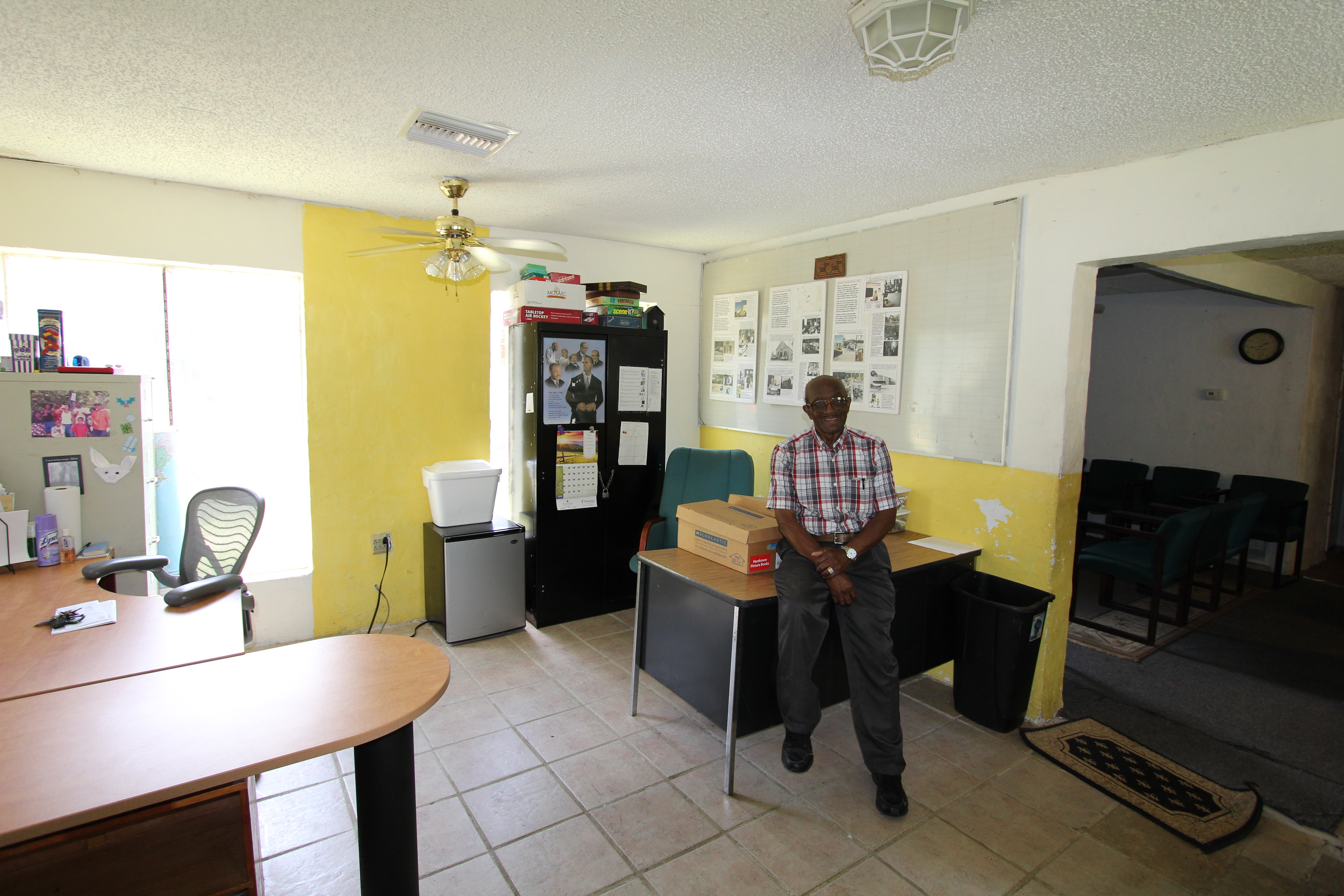 Interior View of the Espanola Schoolhouse (a one-room black-only school from the Jim Crow era) - located in Bunnell, Florida.